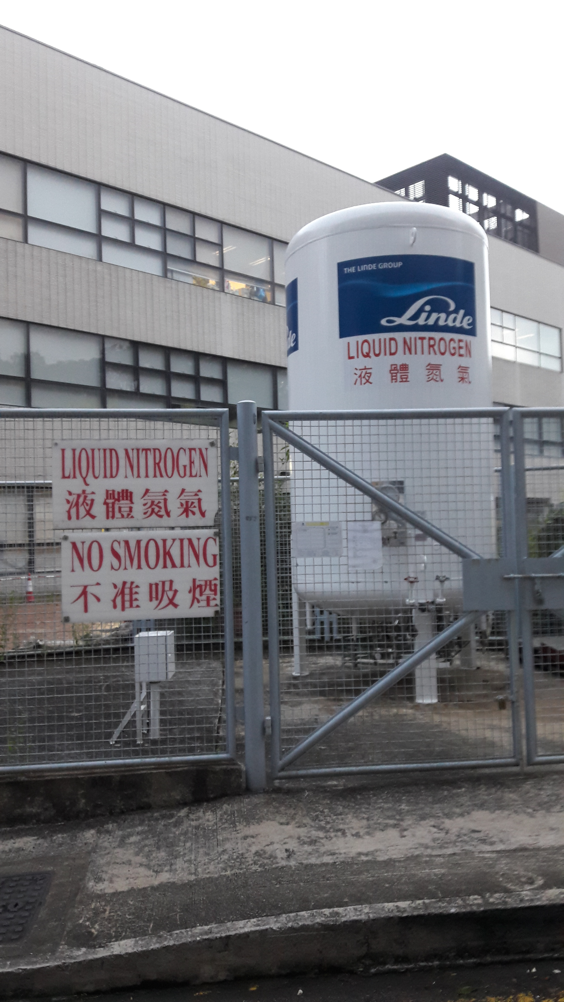 A liquid nitrogen tank in Chinese University, Hong Kong.